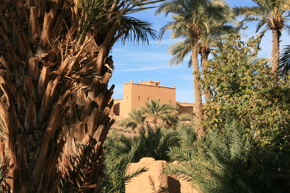 View of Oasis and Kasbah in Nkob village in Morocco